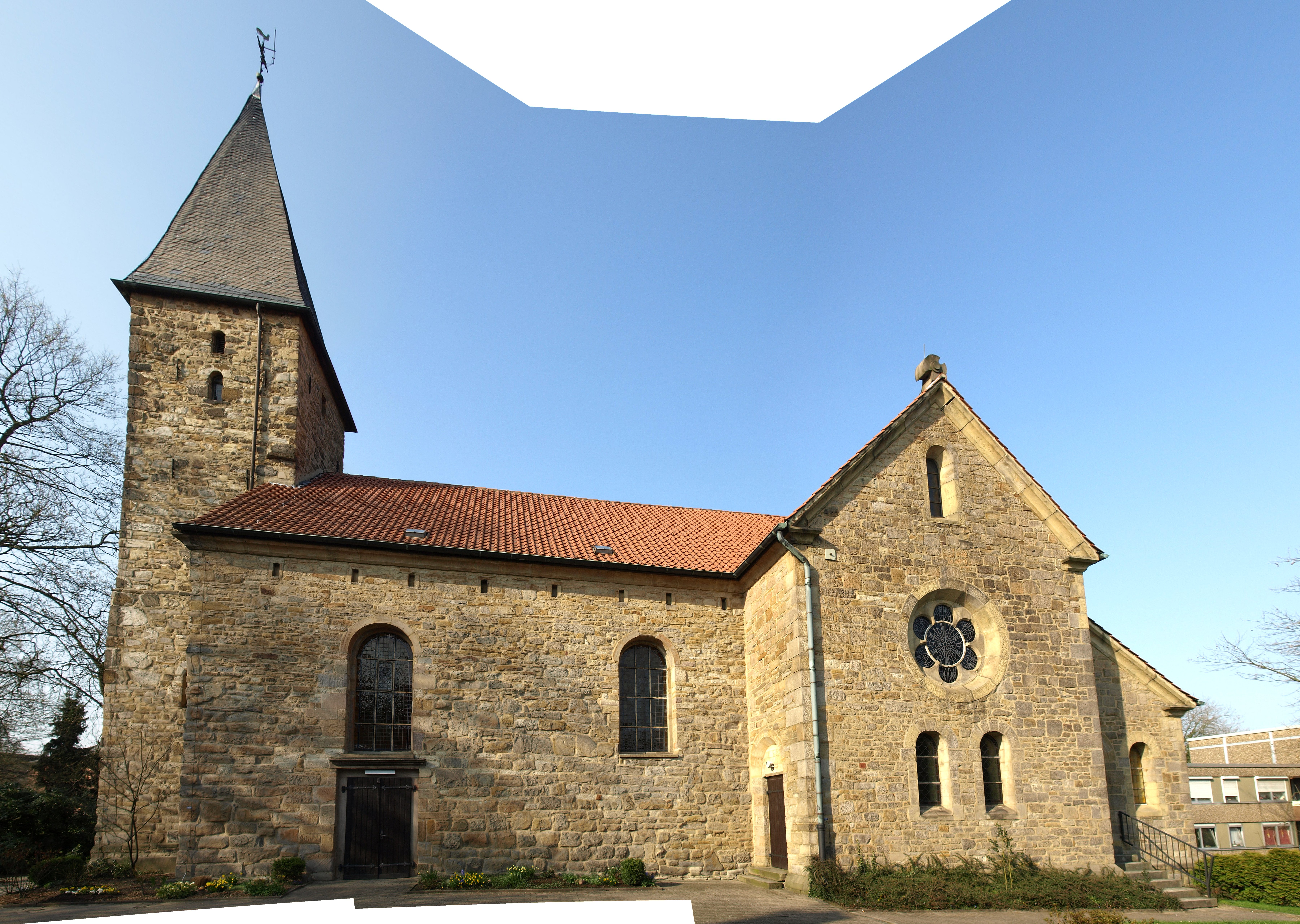 St. Margareta (Romanesque church in Dortmund), panoramic shot